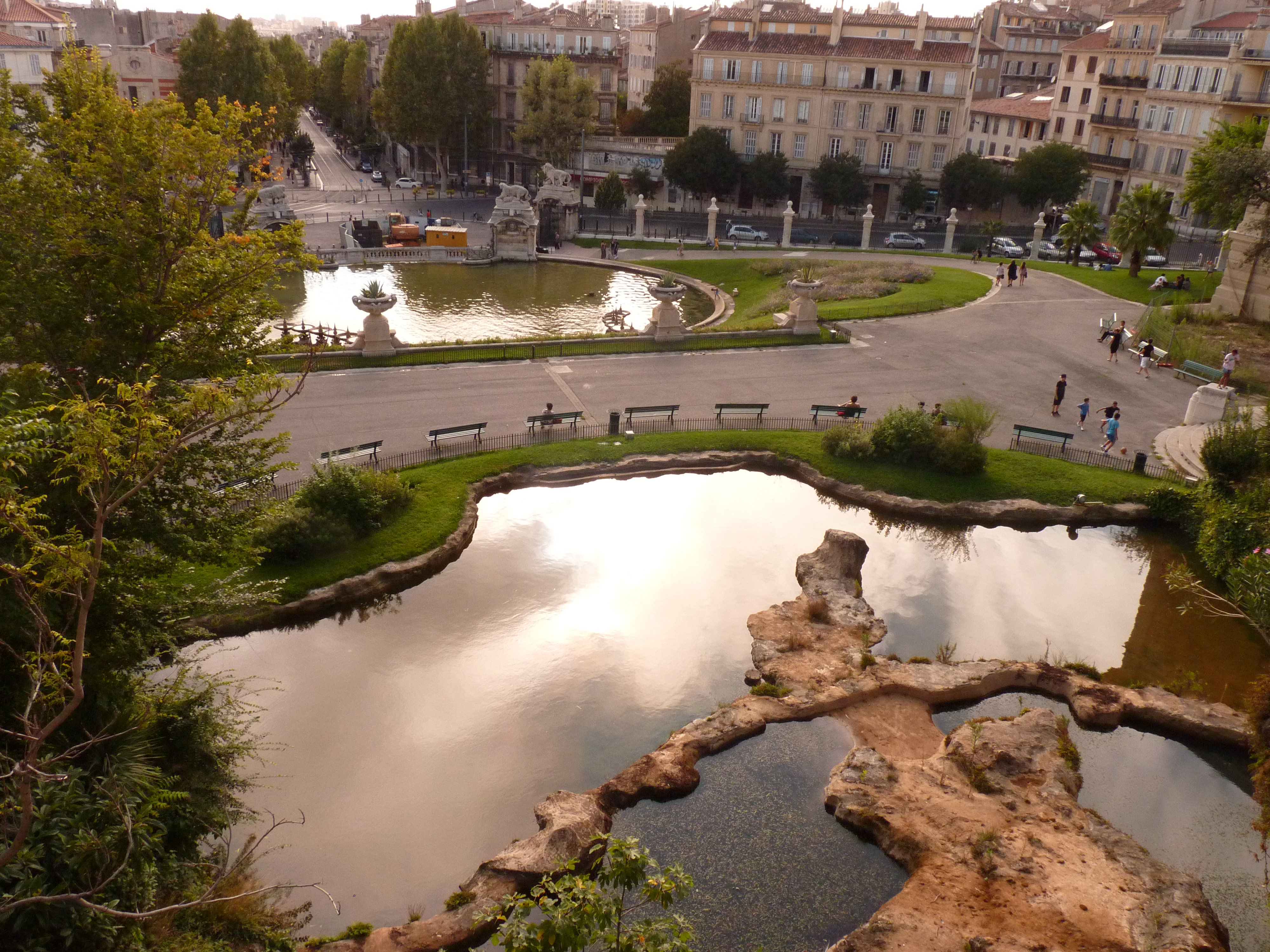 Fountains of "rocaille art" inspiration with the Longchamp boulevard in the background